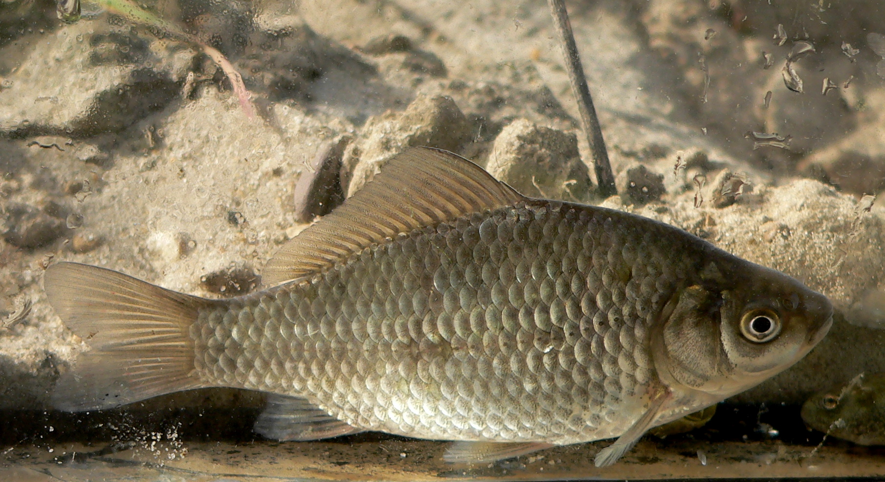 A 7 cm Prussian carp (Carassius giebelio) caught in the Netherlands at fish Excursion. The habitus of these Prussian carp is very uniform, maybe due to the gynogenetic reproduction, essentially producing all female clones.